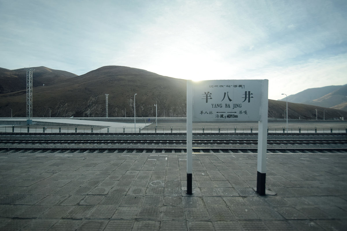 Yangbajing Railway Station, Qinghai-Tibet Railway (altitude 4313m)